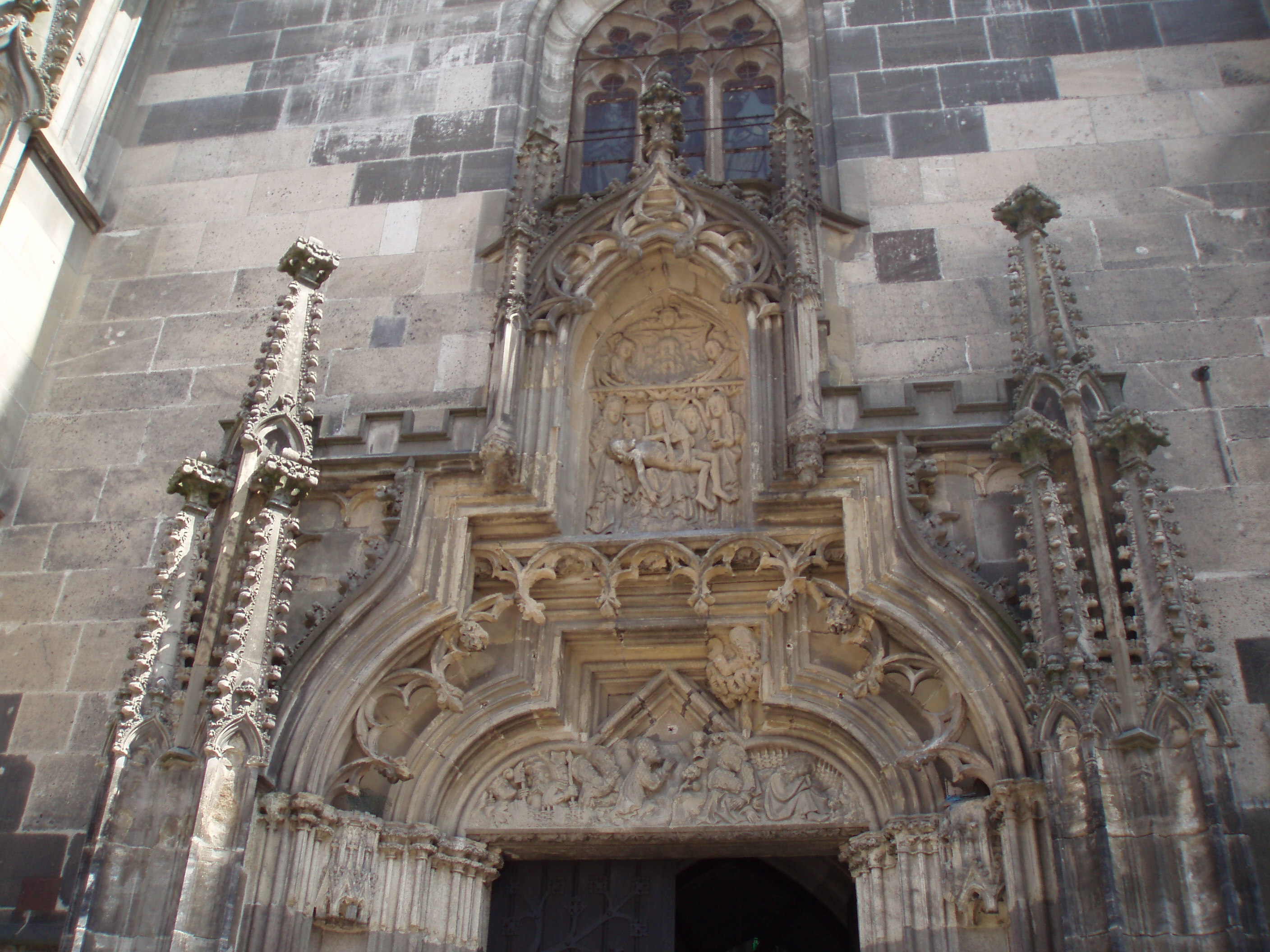 The western portal of St.Elisabeth Cathedral Košice